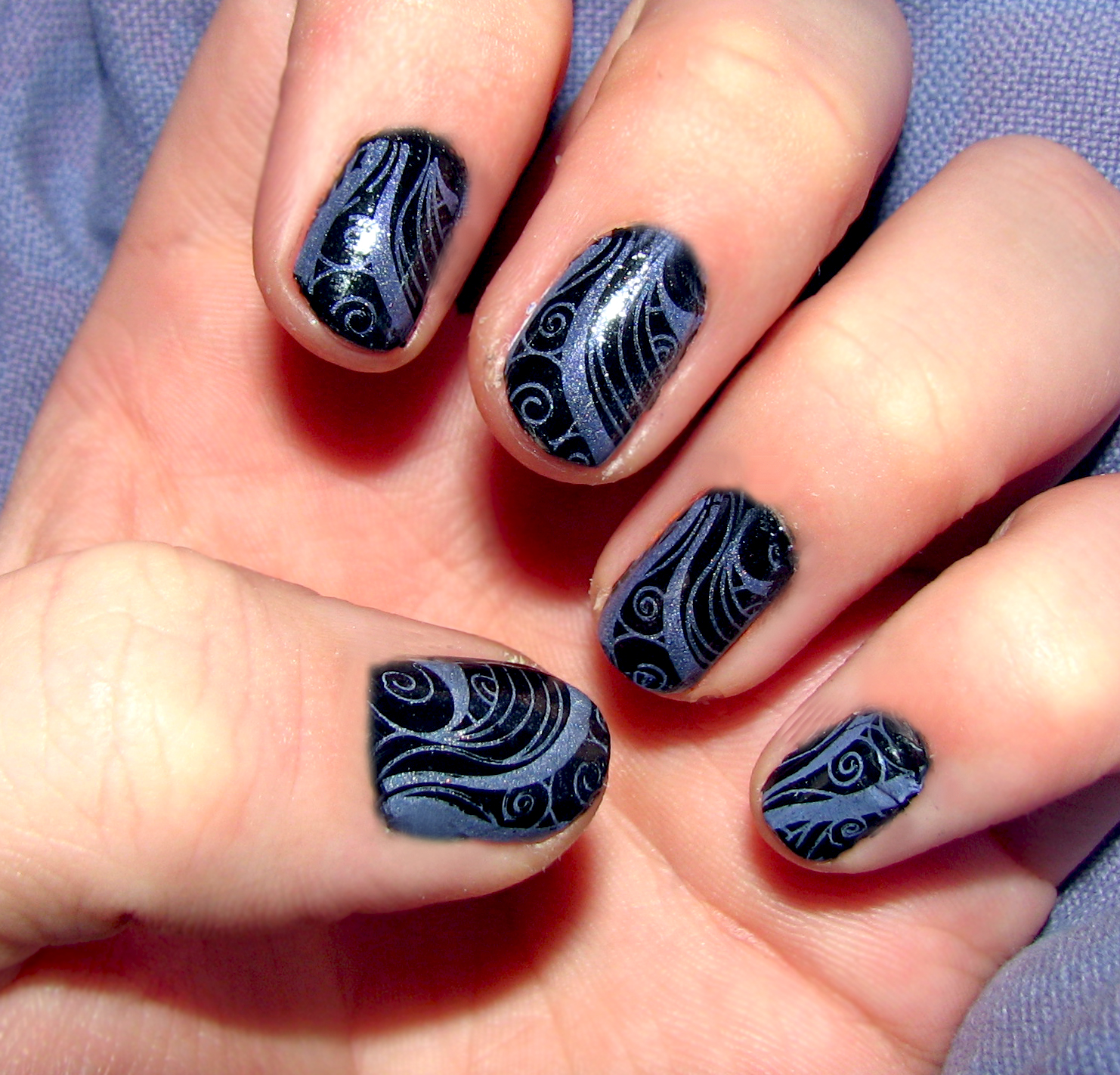 black nail polish and then a purple polish i mixed myself. The stamping took practicing and not all the images work great unfortunately.